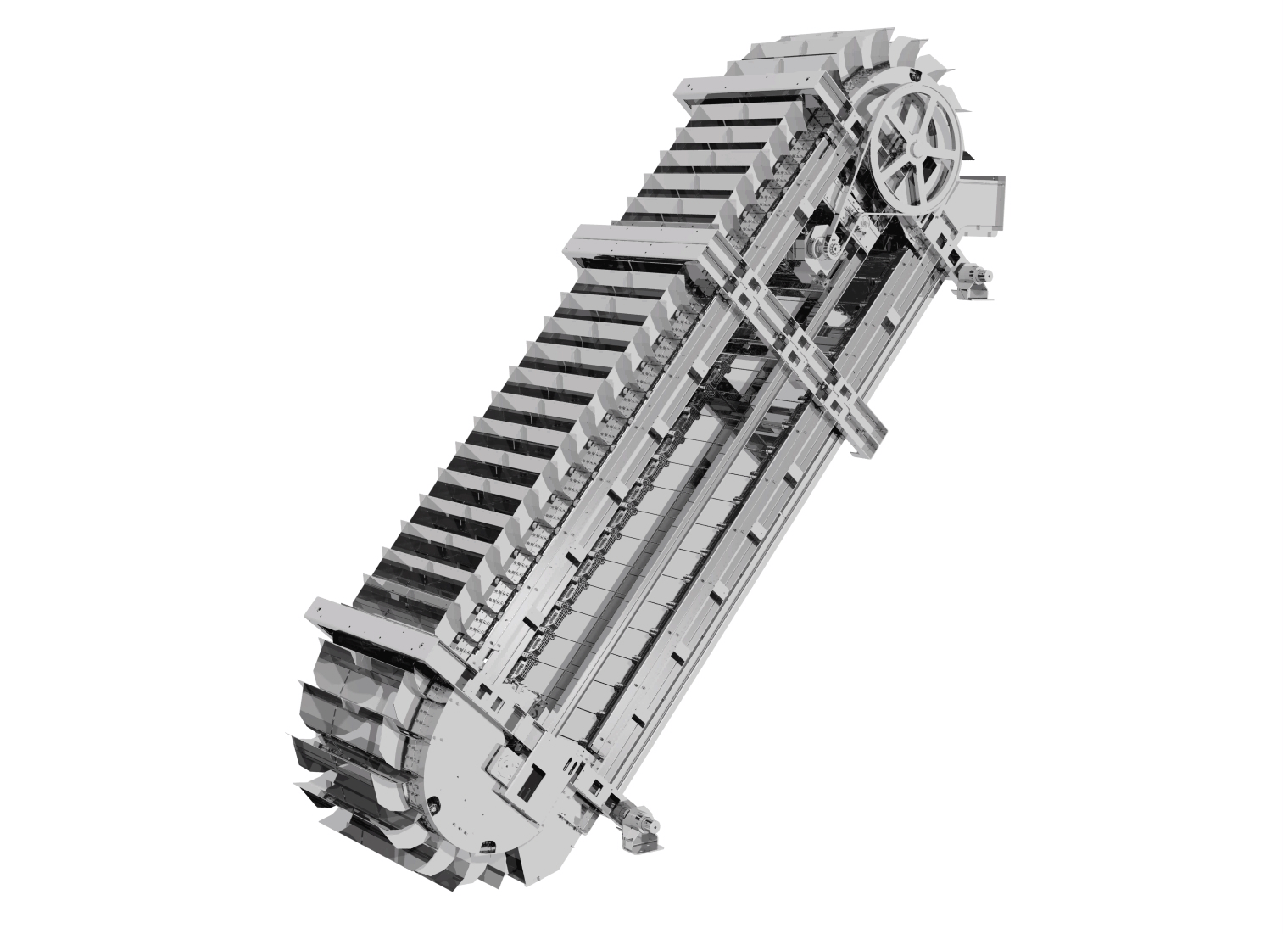 Picture of the Steffturbine